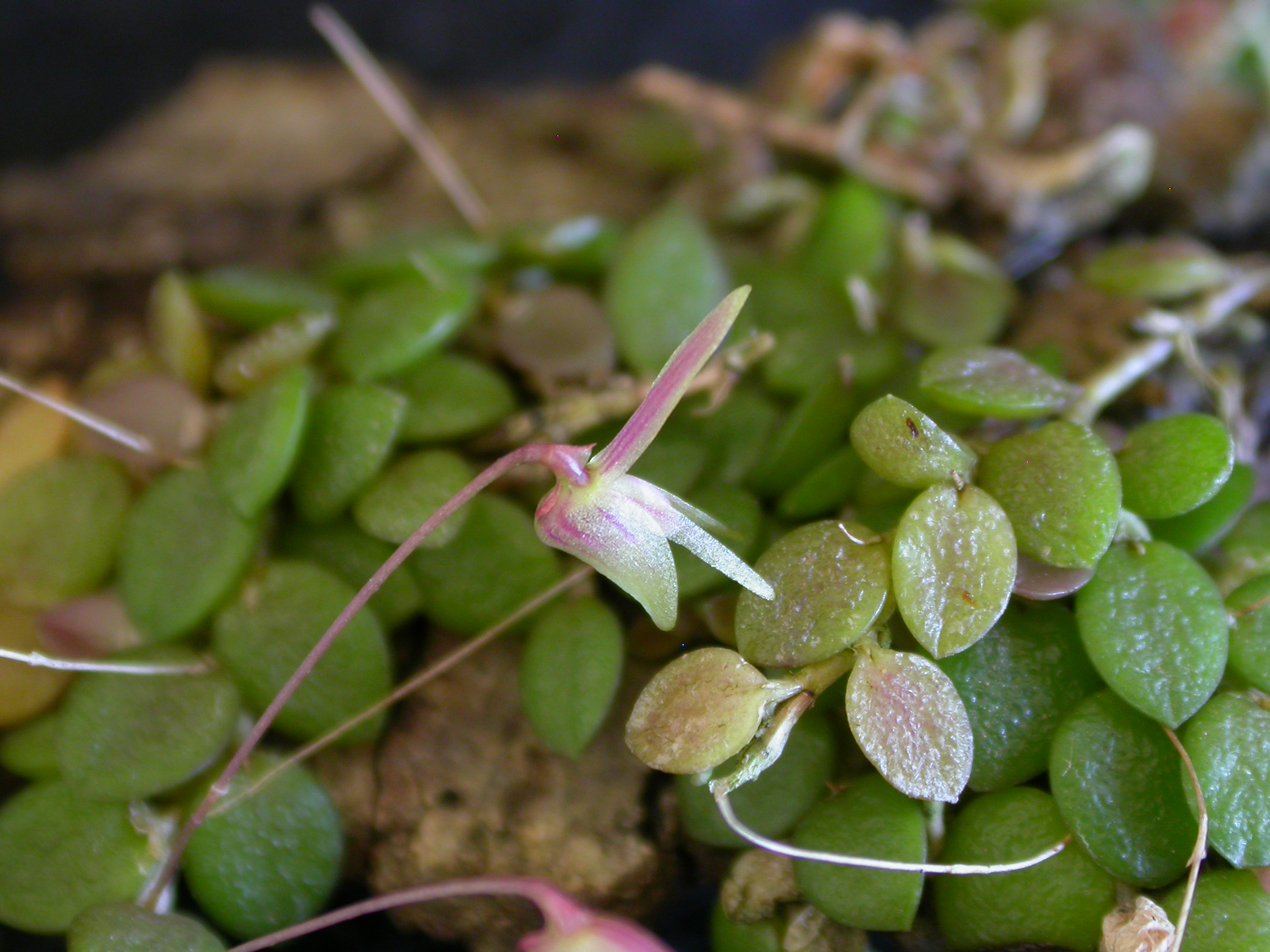 Barbosella crassifolia plant